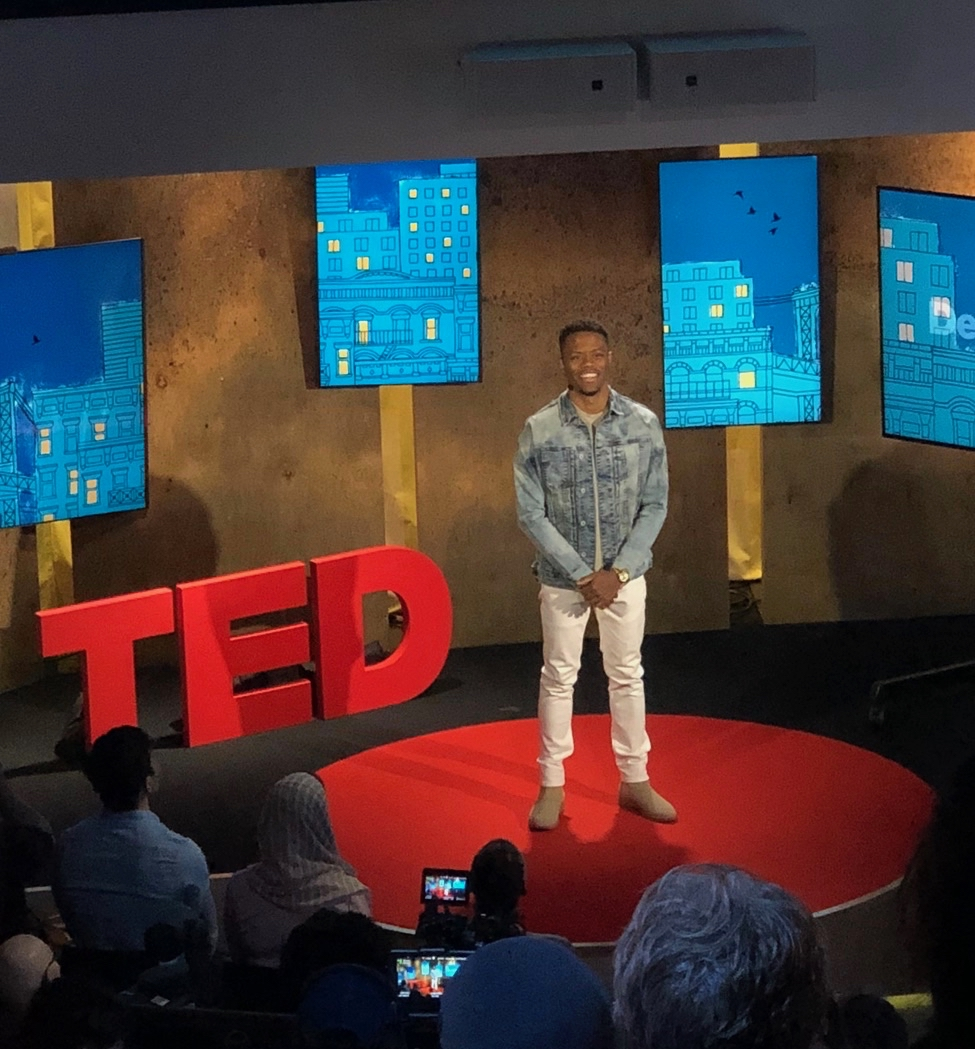 Derrius Quarles speaking at TED Headquarters 2017 via the TED Residency.